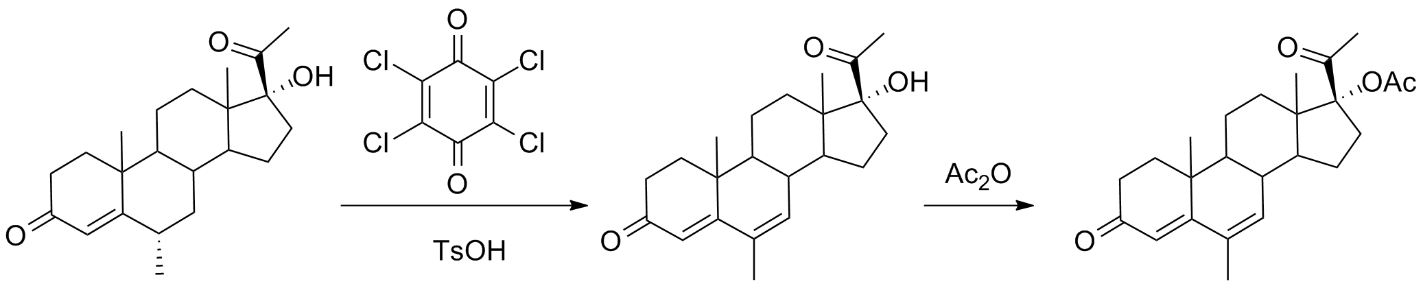 US 21891079